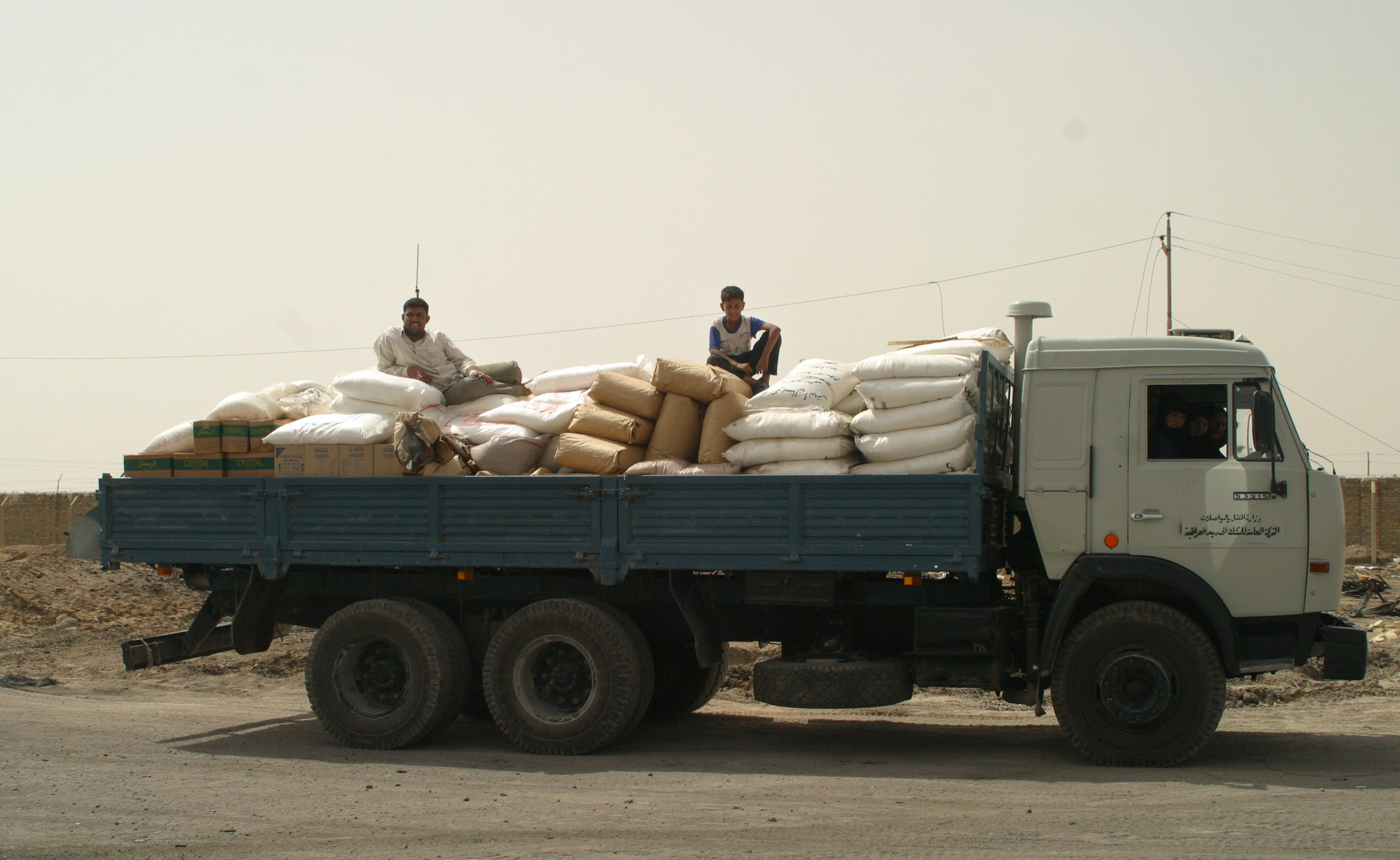 Food aid leaves a World Food Program warehouse in Umm Qasr, southern Iraq. USAID supports the program which provides basic food rations to a large number of needy families in Southern Iraq.